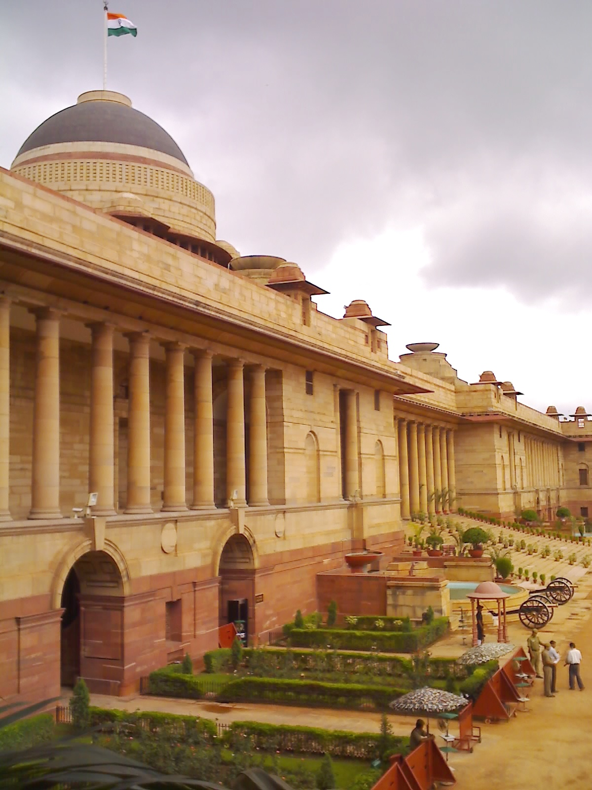 Rashtrapati Bhavan, New Delhi, India. Snap taken self.